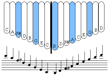 Mark Holdaway Kalimba Magic]